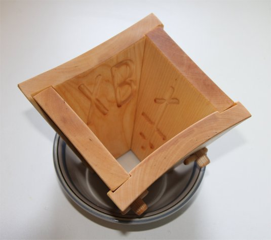 Small mould (volume some 0,5-0,6 liters) used to give shape for the pasha (paskha) - Easter time dish common e.g. in Finland. Note: the link to the legal code of license was not not working so it so I cannot be sure it is correct; I accept only use/ license where attribution to the original contributor shall be kept if file is used later.